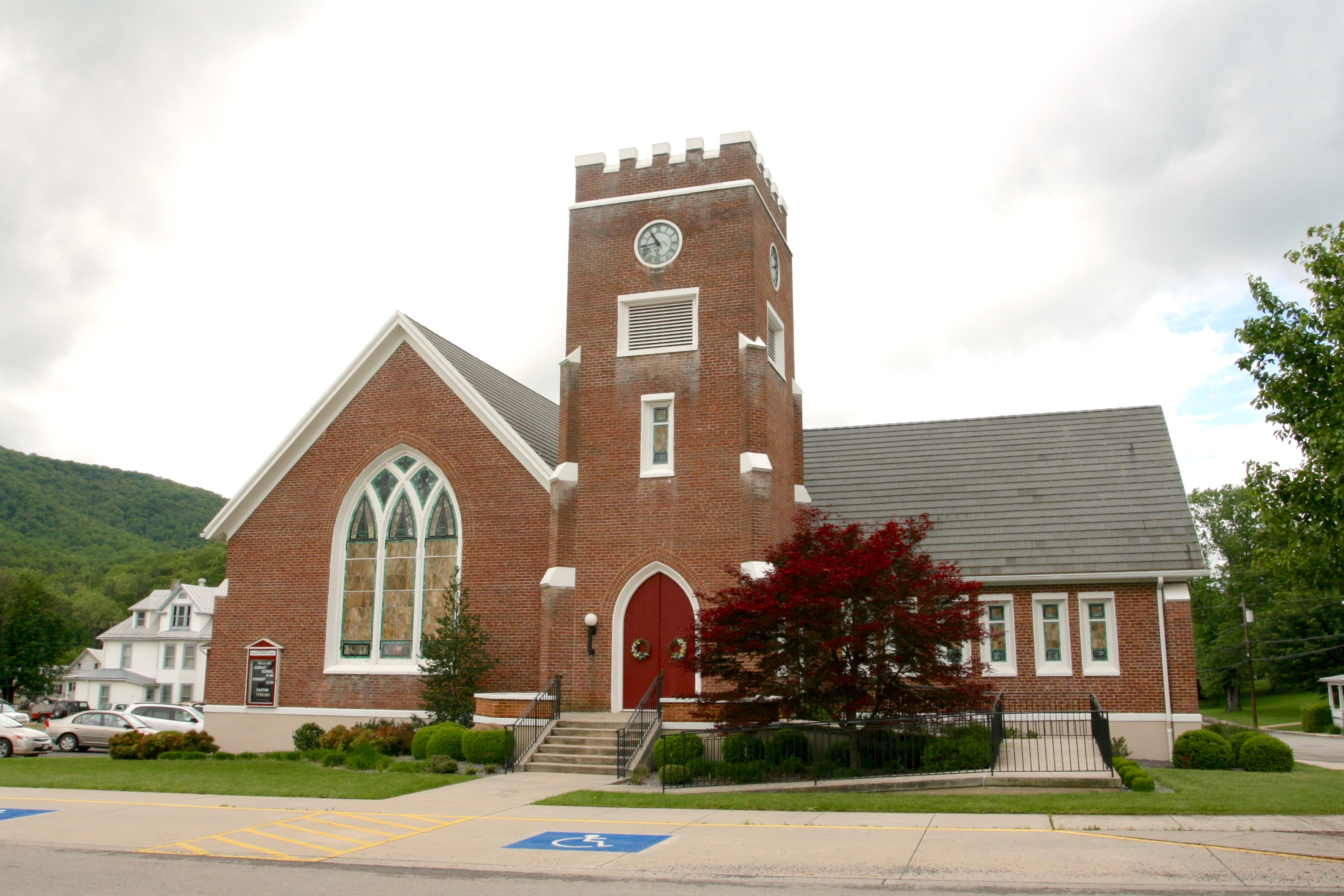 Franklin Presbyterian Church in Franklin, West Virginia